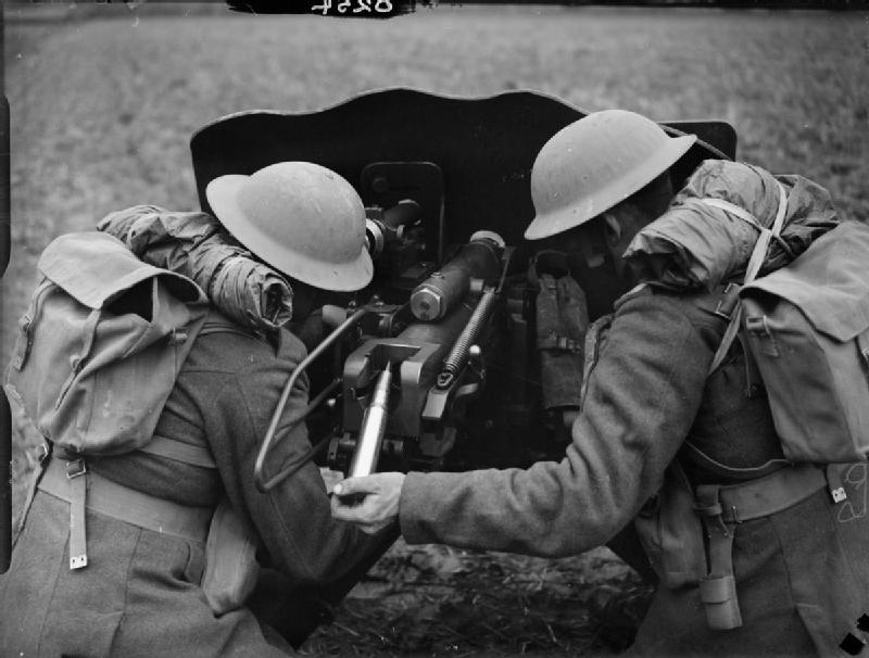 The British Army in France 1939 Men of the 2nd Royal Inniskilling Fusiliers training on a French 25mm SA 34 anti-tank gun, 4 November 1939.